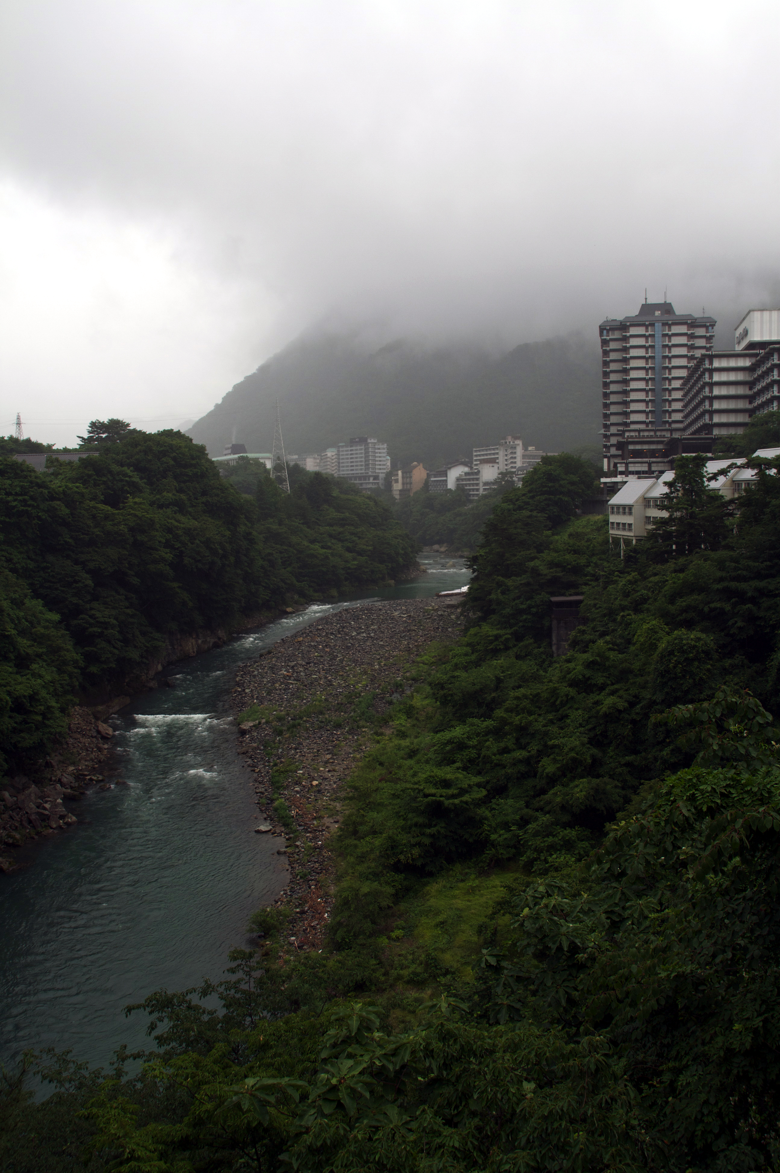 Kinugawa Onsen.